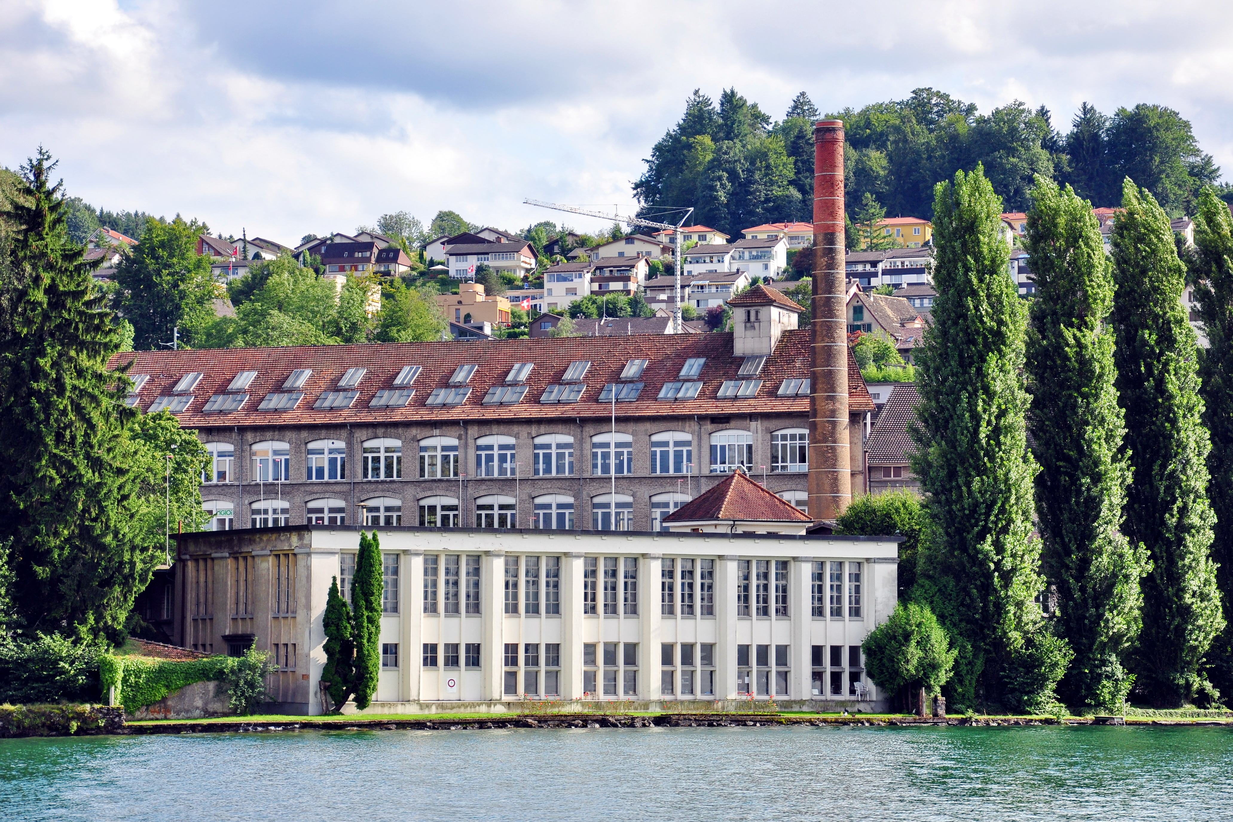 Remaining buildings of the Brauerei (brewery) in Wädenswil (Switzerland) as seen from ZSG motorship Limmat